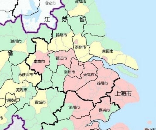 Changjiang Delta.